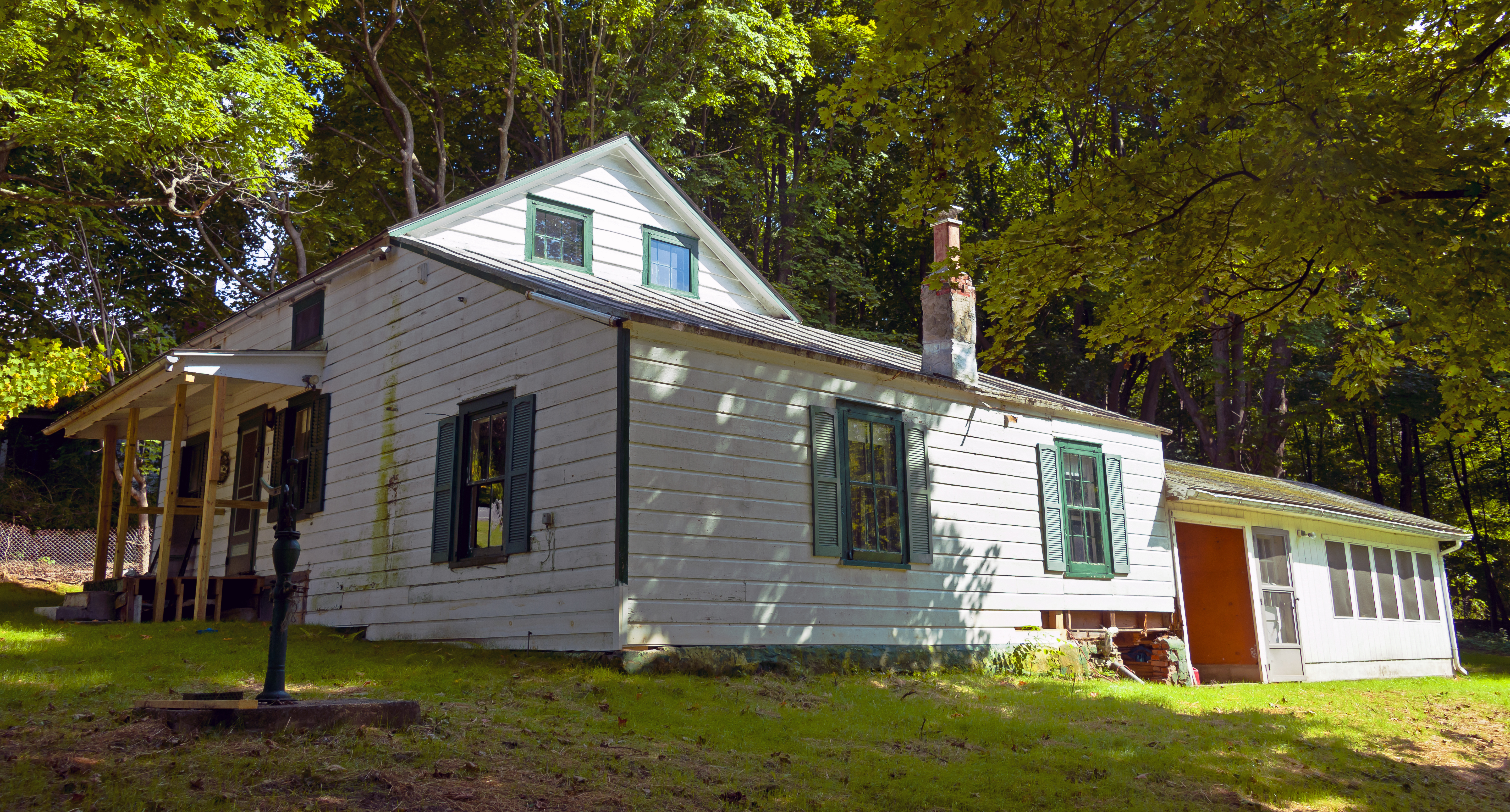 Barrington–Overbaugh–Lasher House, Germantown, NY, USA